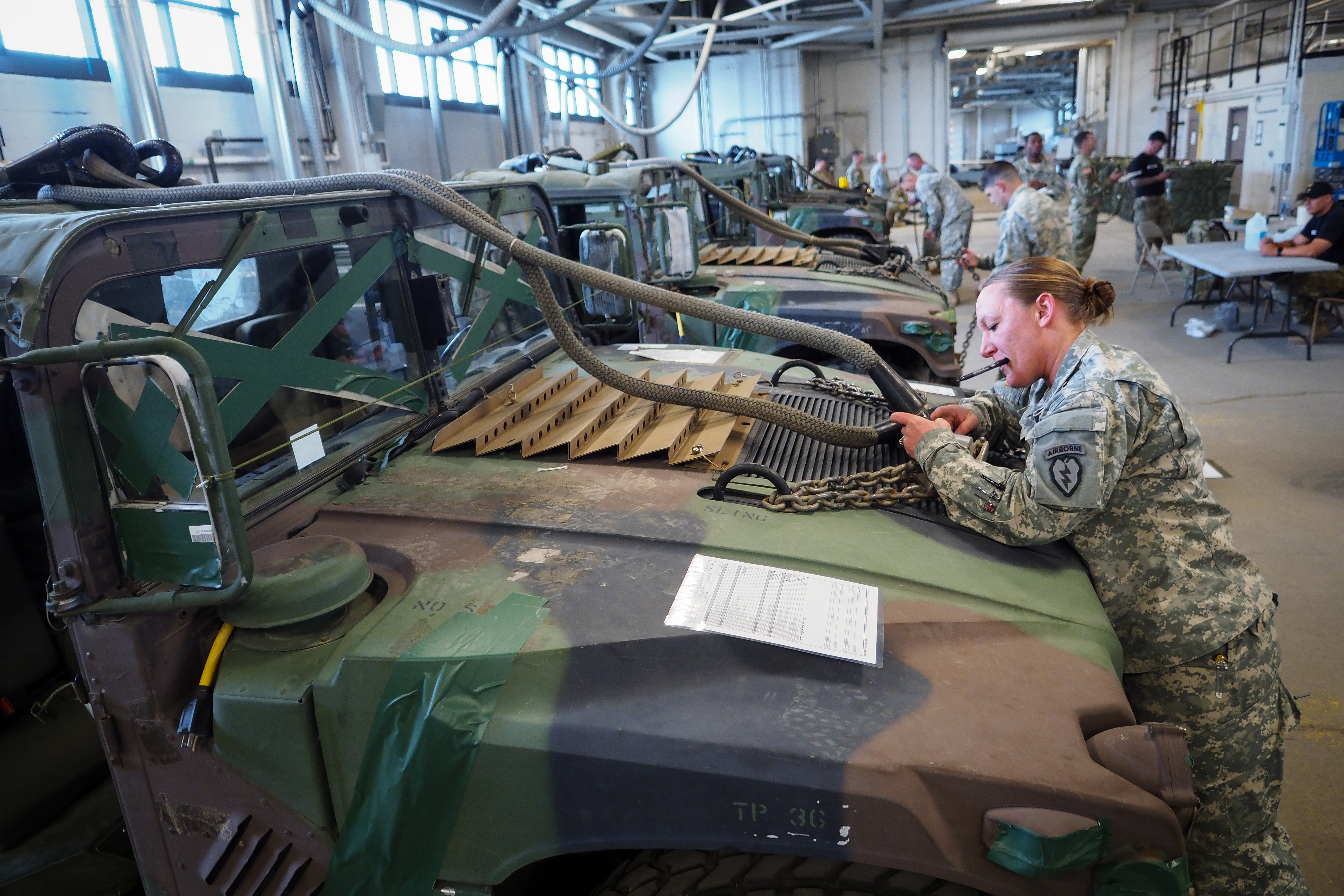 Army Sgt. 1st Class Rebecca Walker, assigned to Headquarters and Headquarters Company, 725th Brigade Support Battalion (Airborne), 4th Infantry Brigade Combat Team (Airborne), 25th Infantry Division, U.S. Army Alaska, trains under U.S. Army Pathfinder School instructors in sling load operations on Joint Base Elmendorf-Richardson, Alaska, Wednesday, May 18, 2016. The mission of the U.S. Army Pathfinder School provides a three week course in which students navigate dismounted, establish and operate a day/night helicopter landing zone, a day/night Air Force Computed Air Release Point drop zone, Army drop zones, conduct sling load operations, and provide air traffic control as well as navigational assistance to rotary and fixed wing aircraft. (U.S. Air Force photo/Justin Connaher) Unit: Joint Base Elmendorf-Richardson Public Affairs